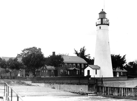 The Fort Gratiot Lighthouse in Port Huron, Michigan, United States, is listed on the US National Register of Historic Places (NRHP).NRHP reference number 76001975